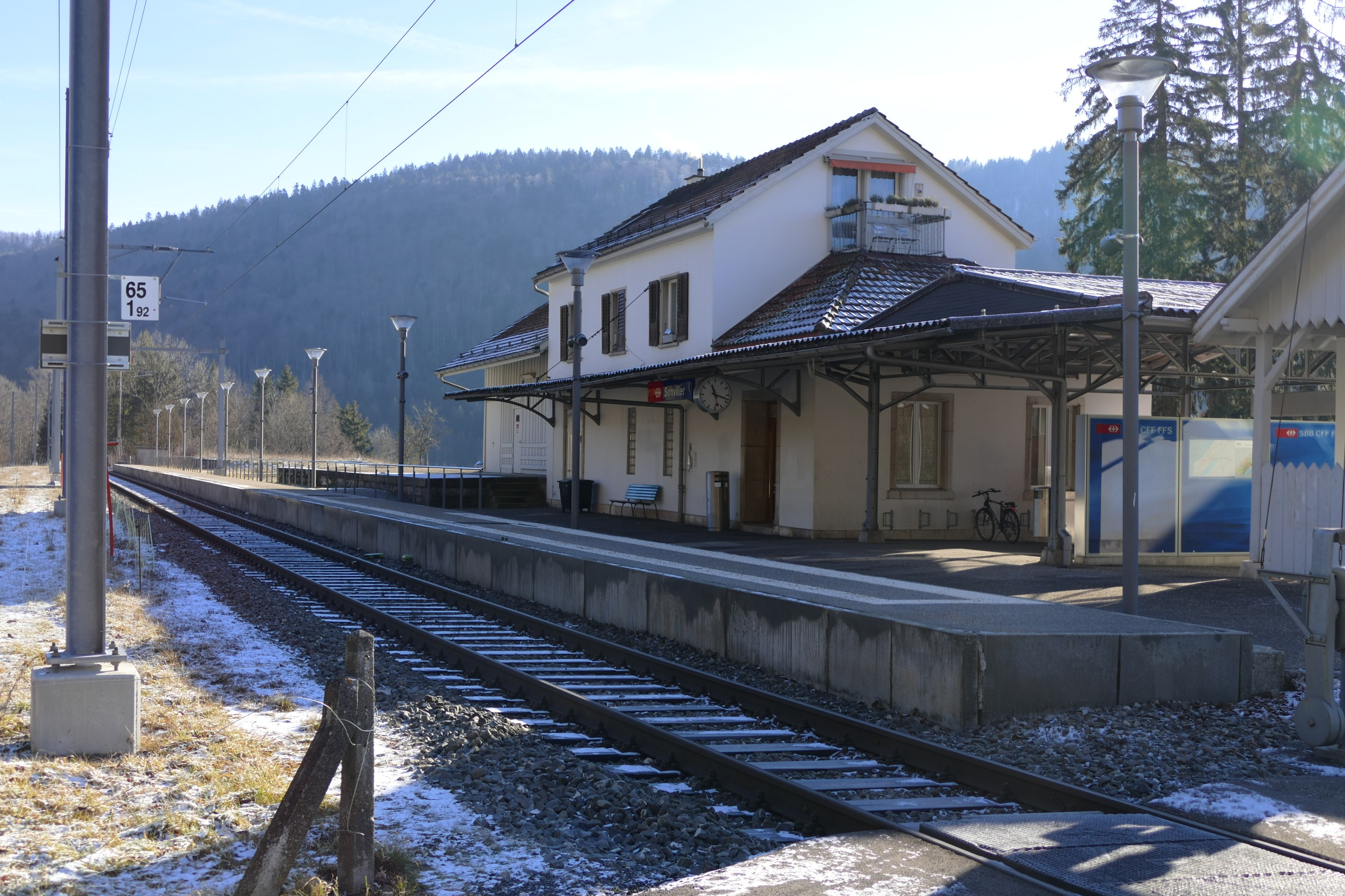 The train station in Sonvilier (Canton de Berne, Suisse).